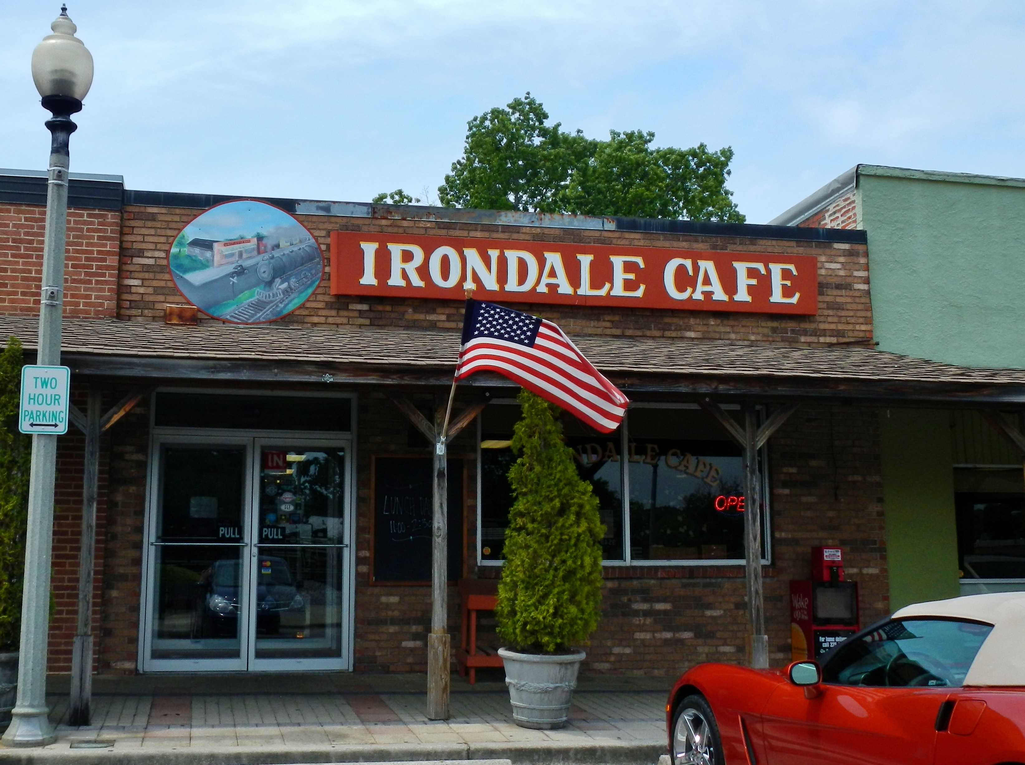 This is a photograph of the Irondale Cafe in Irondale, Alabama (just outside Birmingham). The restaurant was the inspiration for the Whistlestop Cafe in the book Fried Green Tomatoes (and the film of the same name).